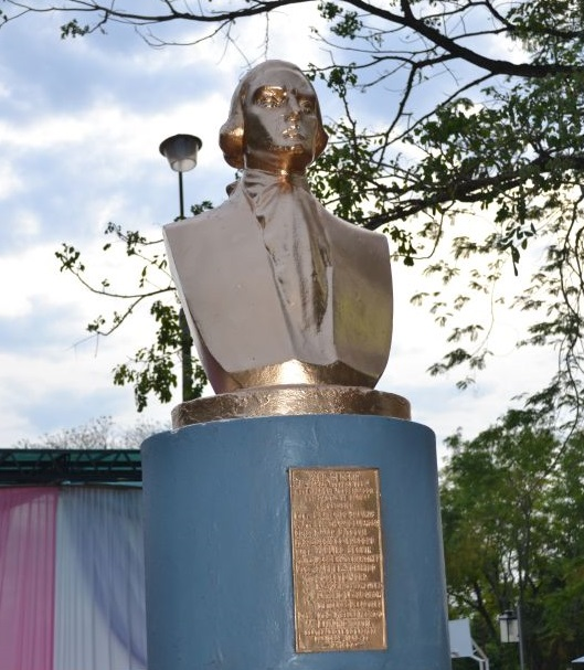 Busto del gobernador español Martín de Barúa Picaza en la plaza del mismo nombre, en la ciudad de Itauguá.